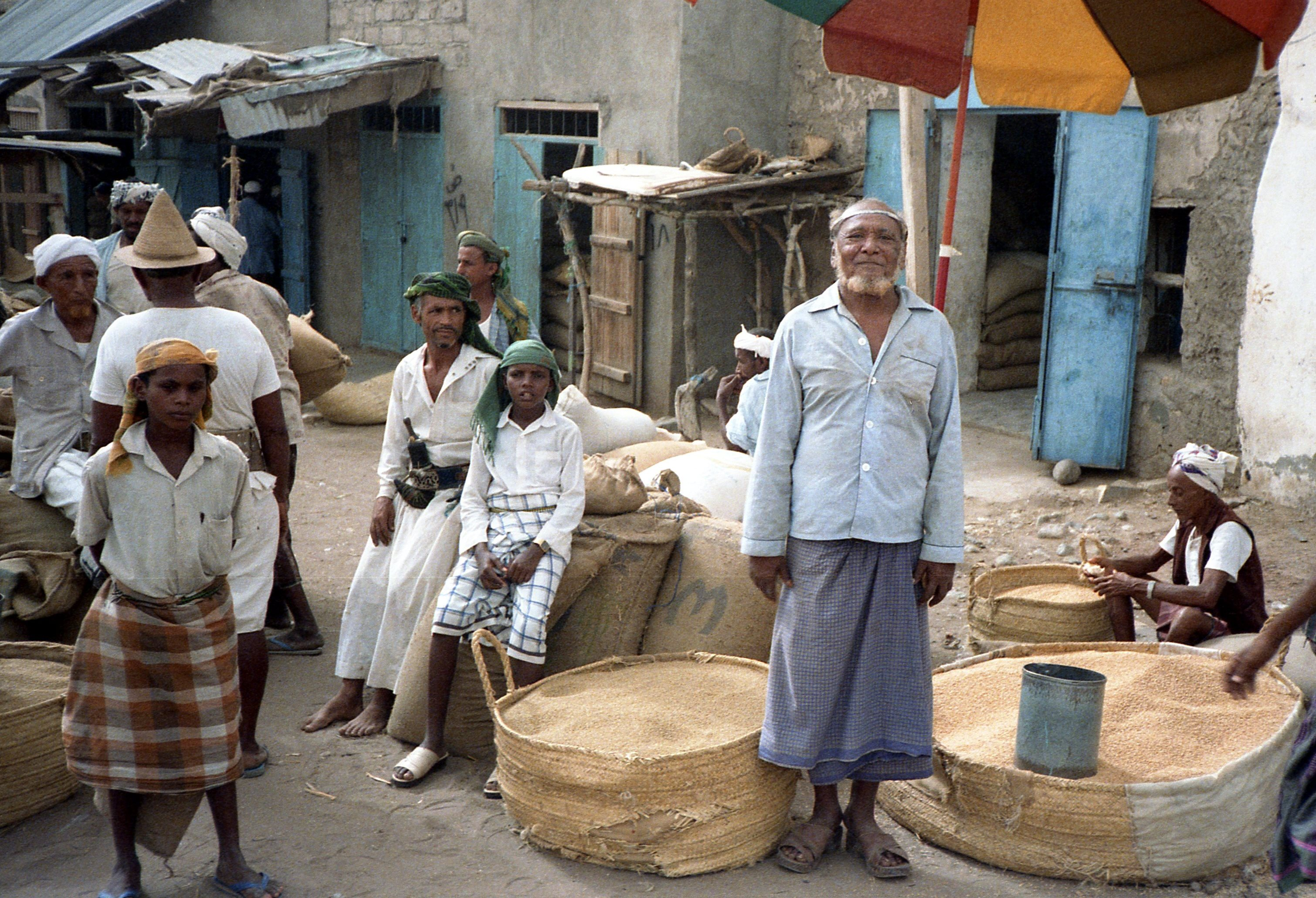 Man of the Zaranig tribe, Bayt al-Faqih, Yemen